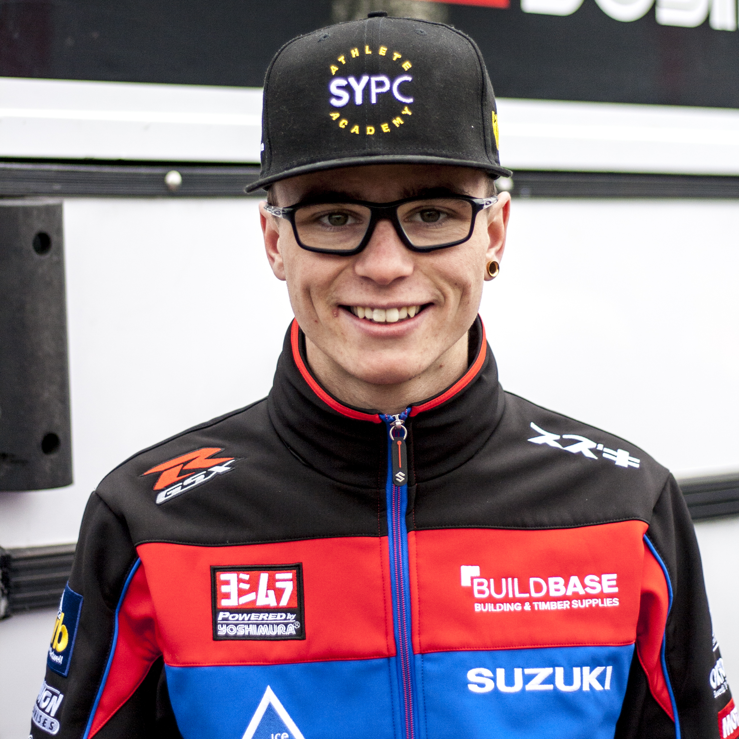 Brad Ray - British Superbike Rider - Taken at Donington Park on the 1st April 2018, just before he achieved the first win of the season.